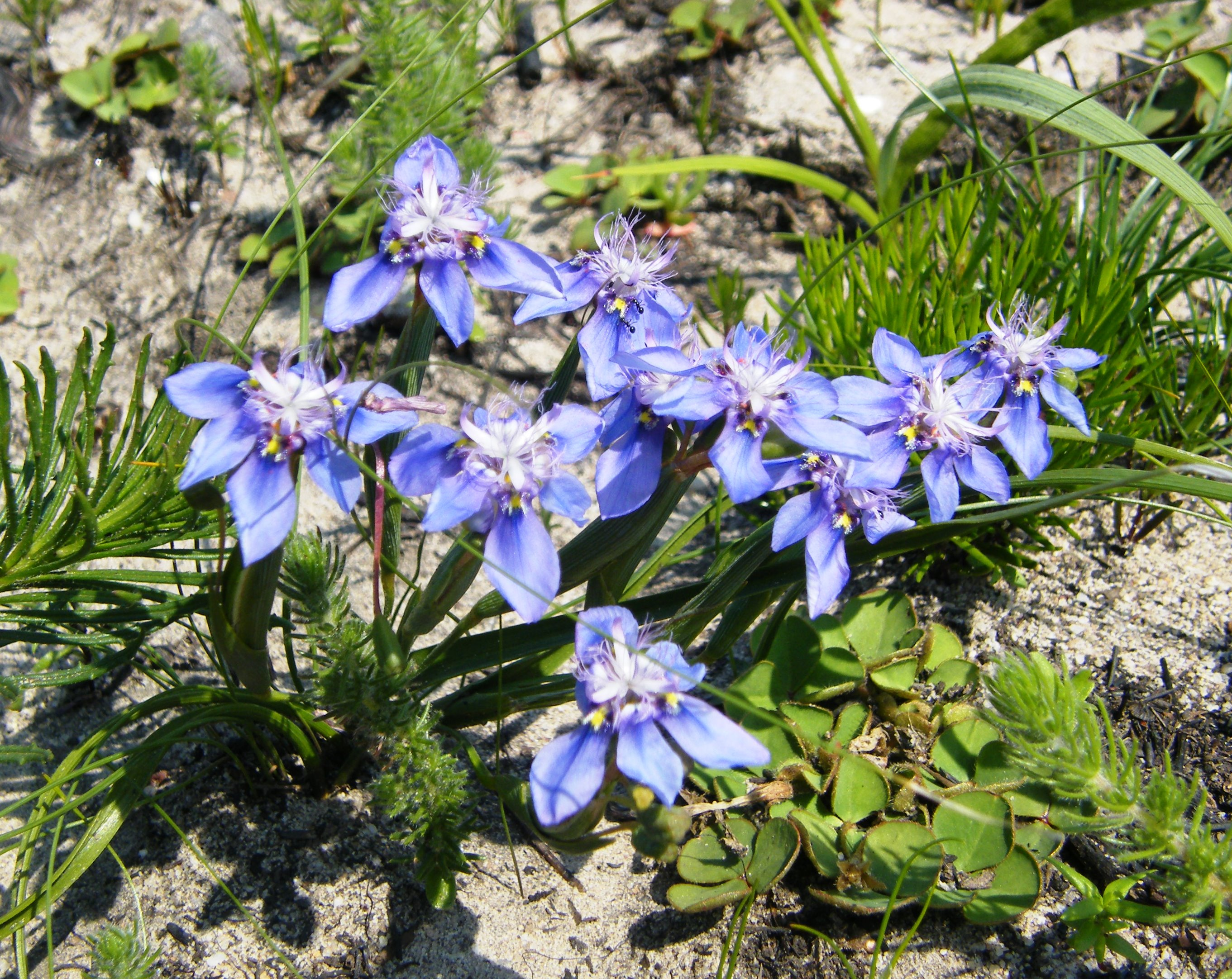 Moraea lugubris at Bokkemanskloof, Hout Bay, Cape Peninsula